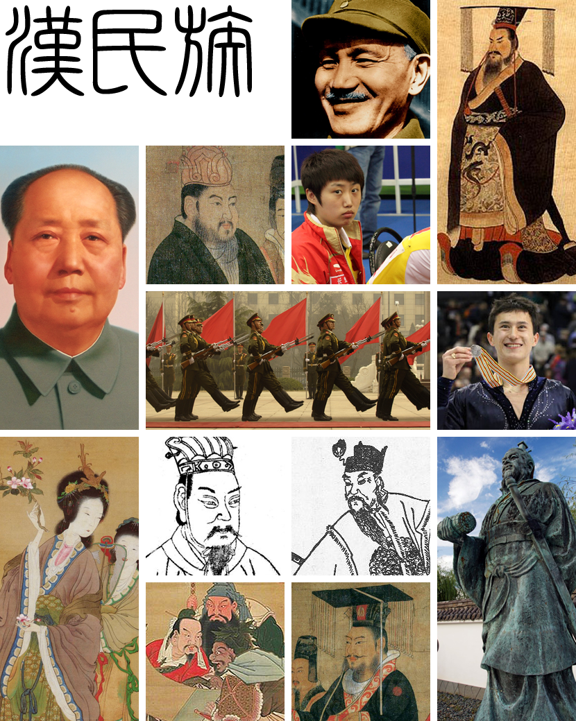 13 Han Chinese Montage